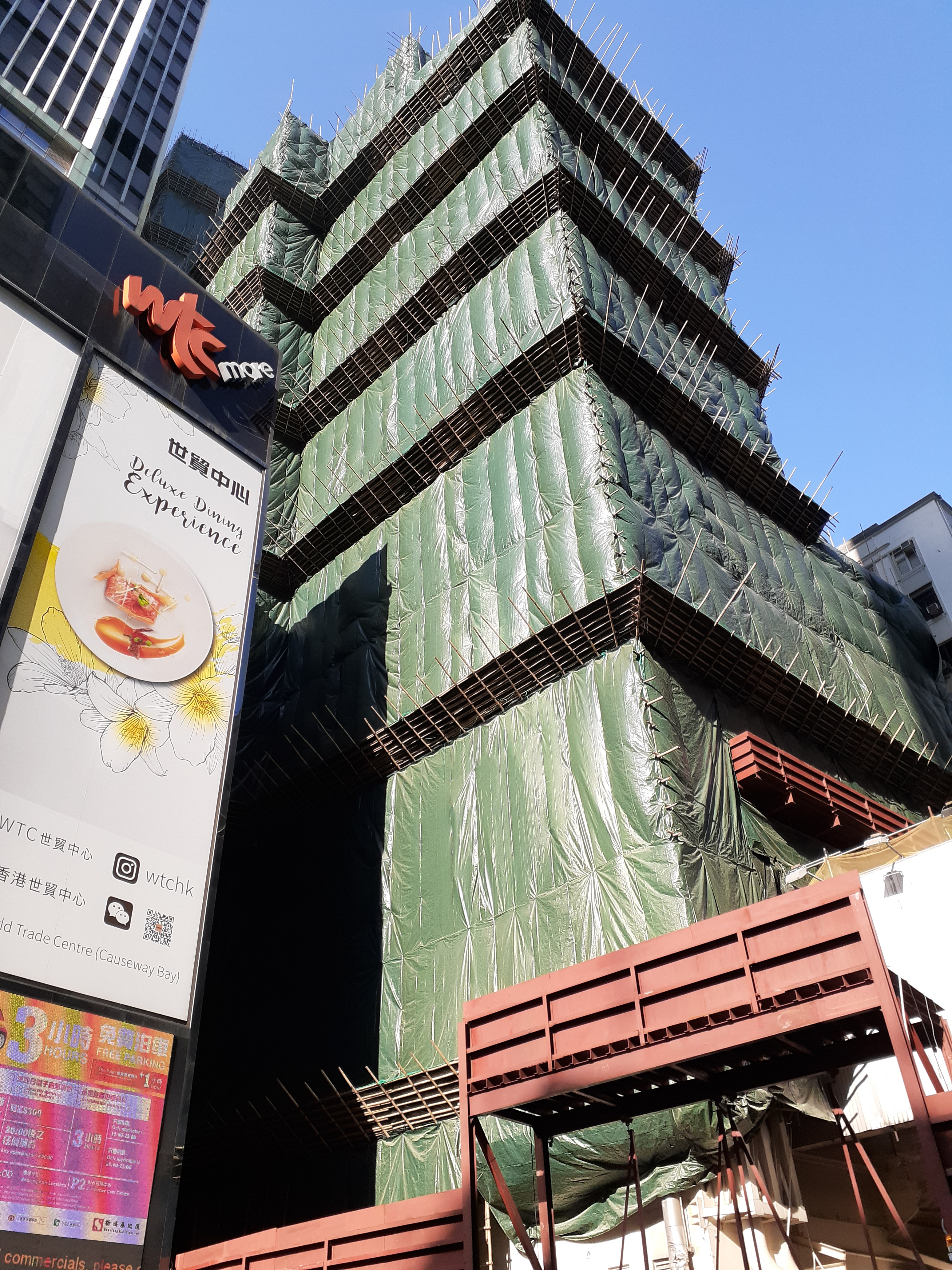 HK CWB 銅鑼灣 Causeway Bay 謝斐道 Jaffe Road in November 2019